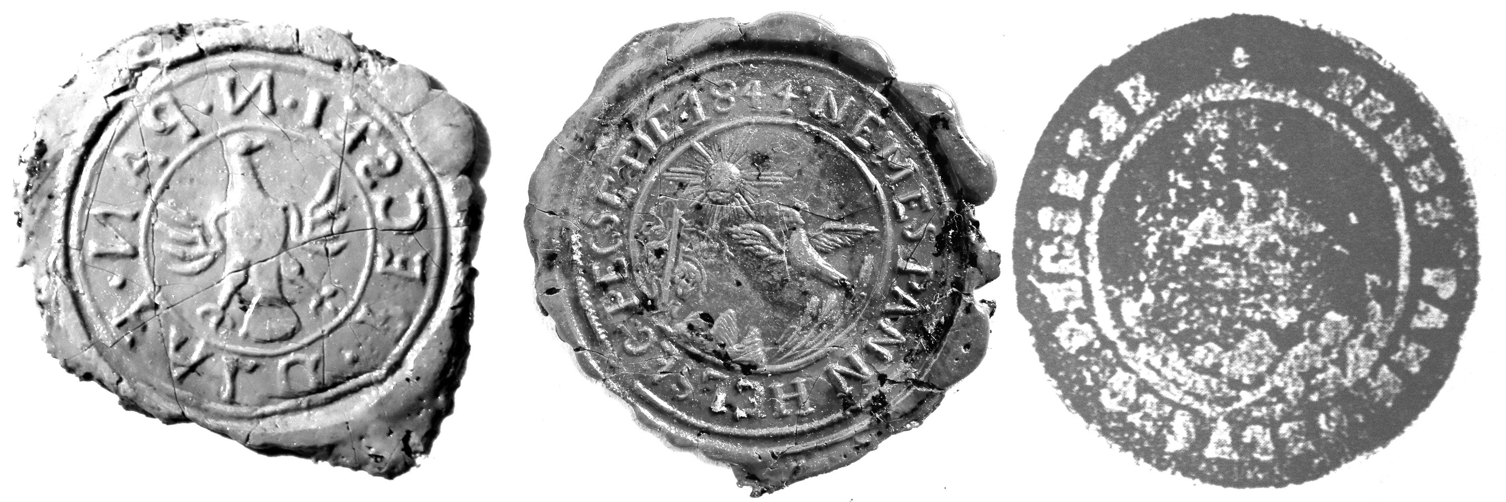 The oldest known seals of municipality Paňa (around 1791; 1844 and the 80-90s of the 19th century)